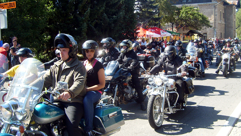 European Bike Week at FAAKERSEE, Austria 2010, amazing number of Harleys